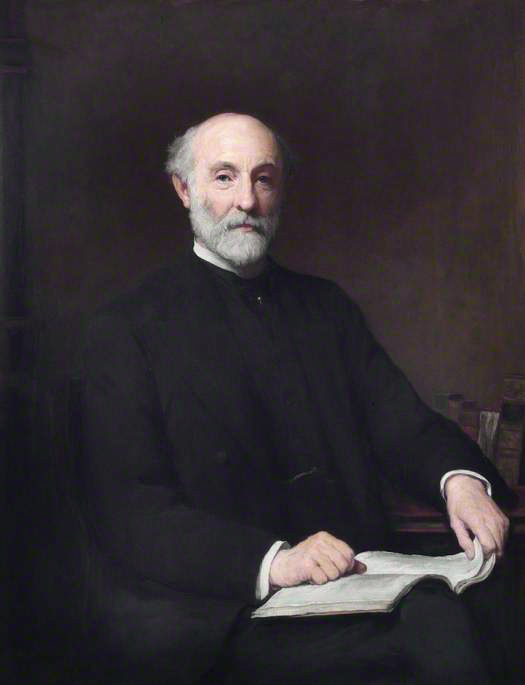 (1816–1905), Governor of the Bank of England (1887–1889) oil on canvas 110 x 82 cm